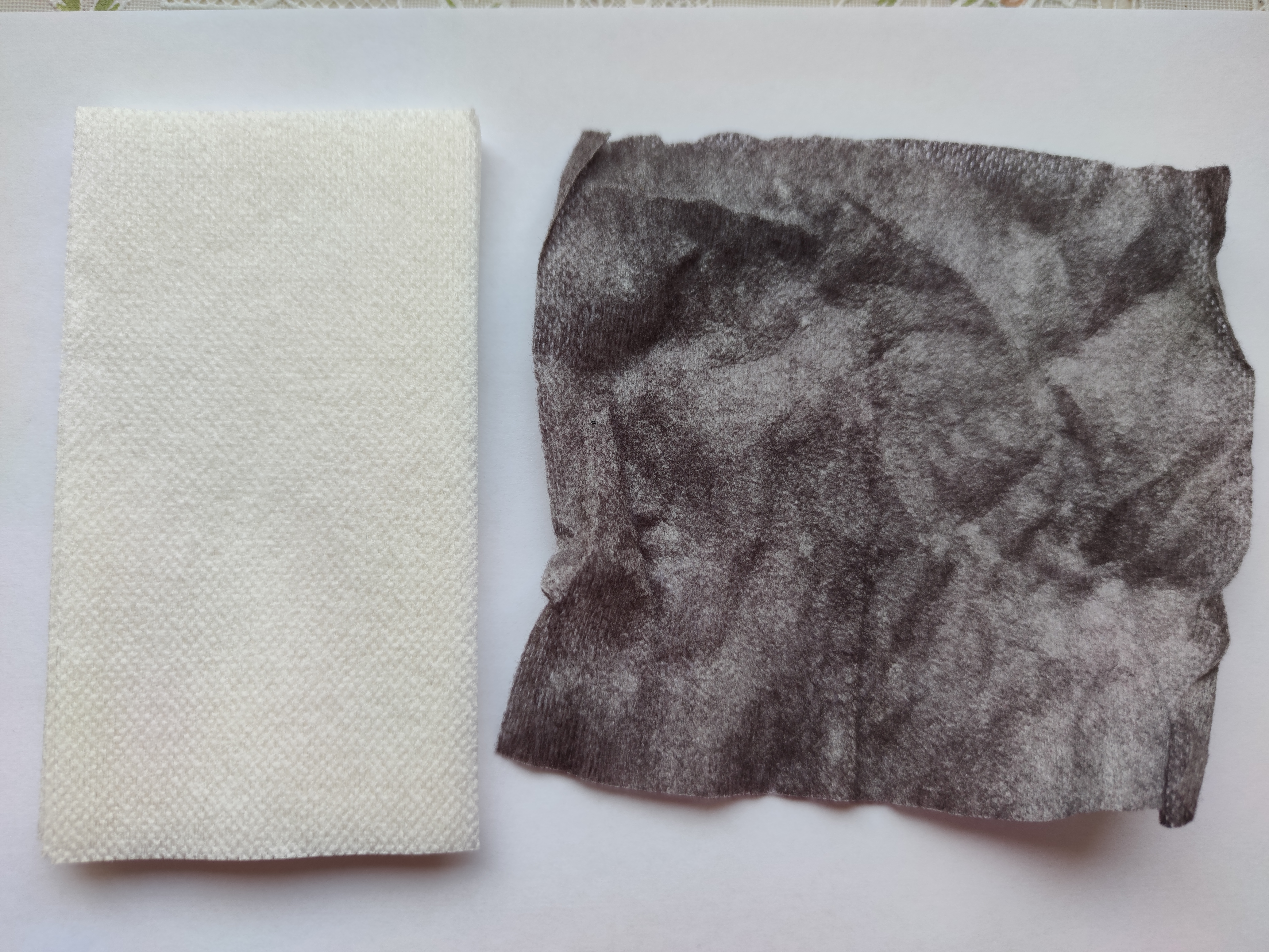 color catcher dye trapping sheets; unused on the left and after washing dark colors on the right.